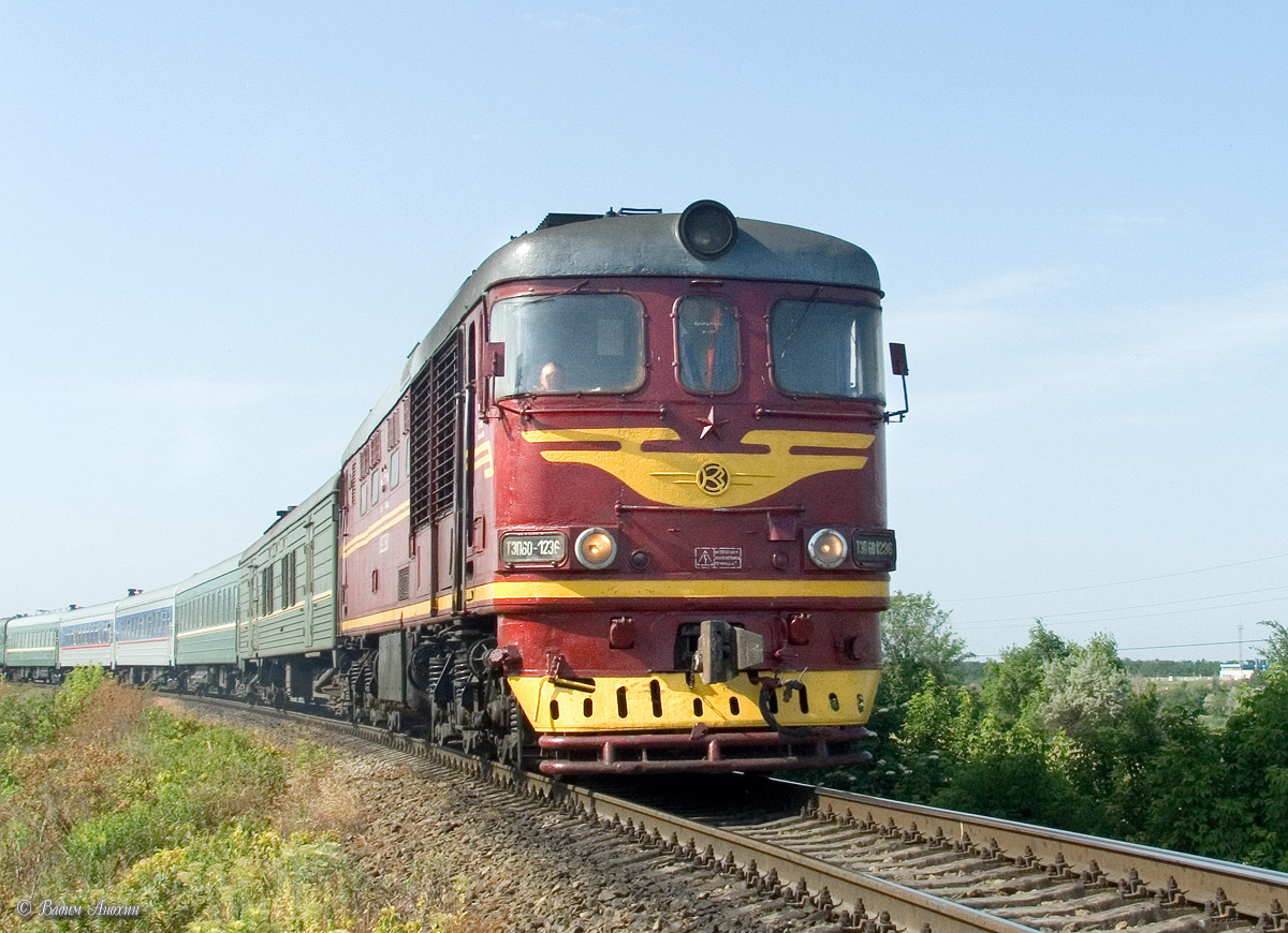 Diesel locomotive TEP60